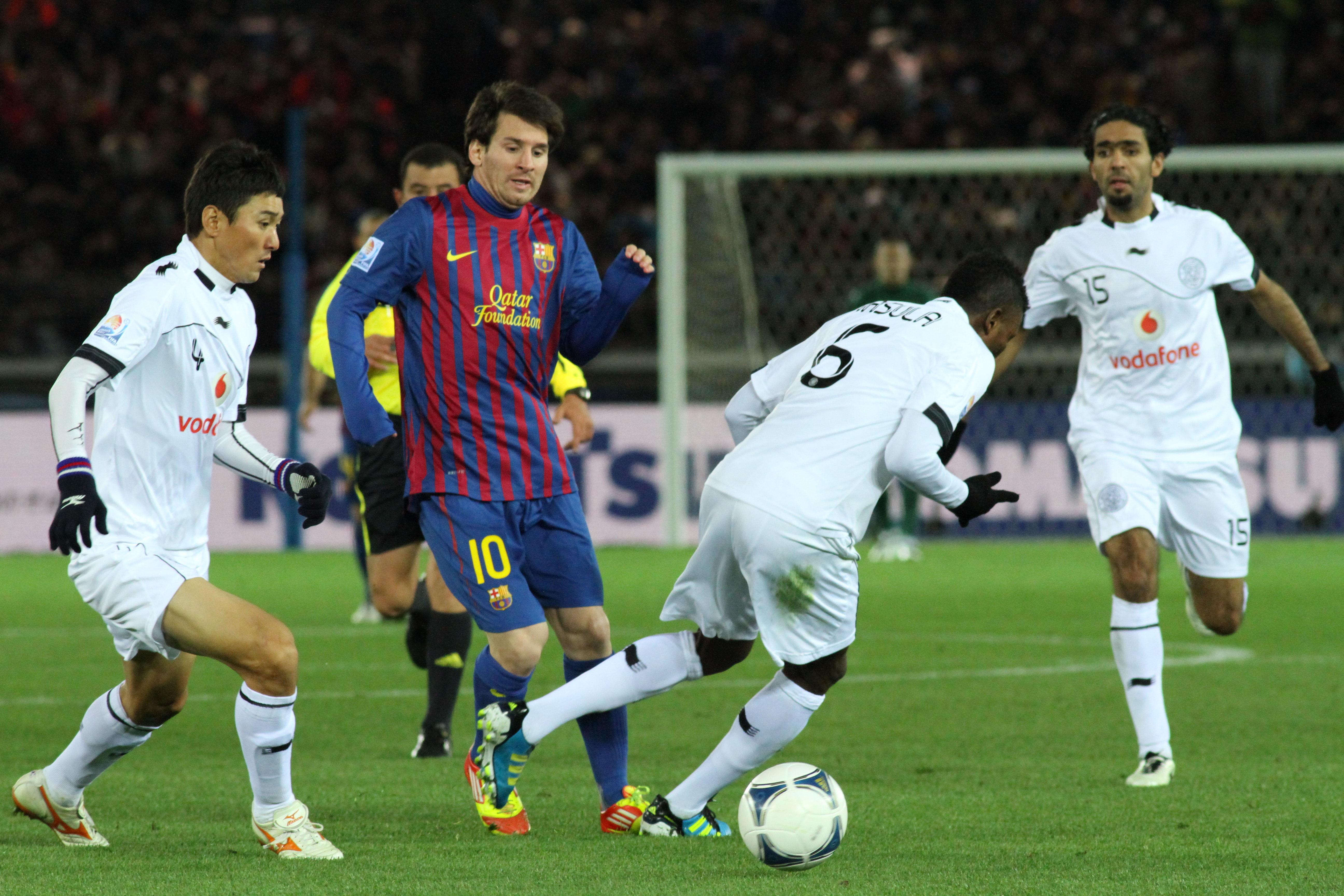 2011 FIFA Club World Cup FC Barcelona vs Al Sadd.jpg